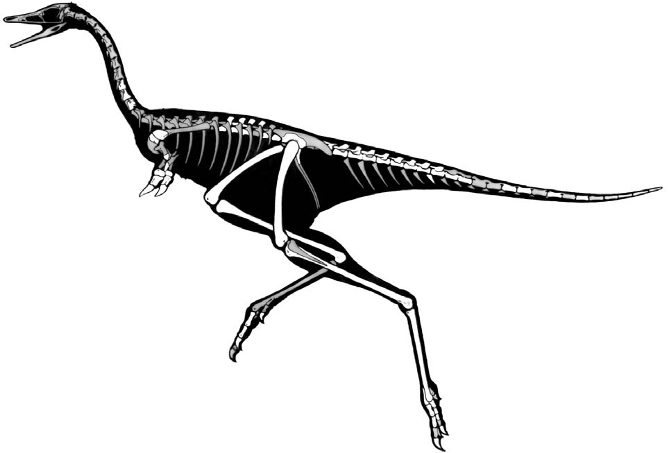 Alvarezsauroid theropod Linhenykus monodactylus Xu, Sullivan, Pittman, Choiniere, Hone, Upchurch, Tan, Xiao, Tan, and Han, 2011a, Bayan Mandahu (“Gate Locality”), Late Cretaceous (Campanian), holo−type (IVPP V17608). Skeletal silhouette showing preserved bones (missing portions shown in grey).